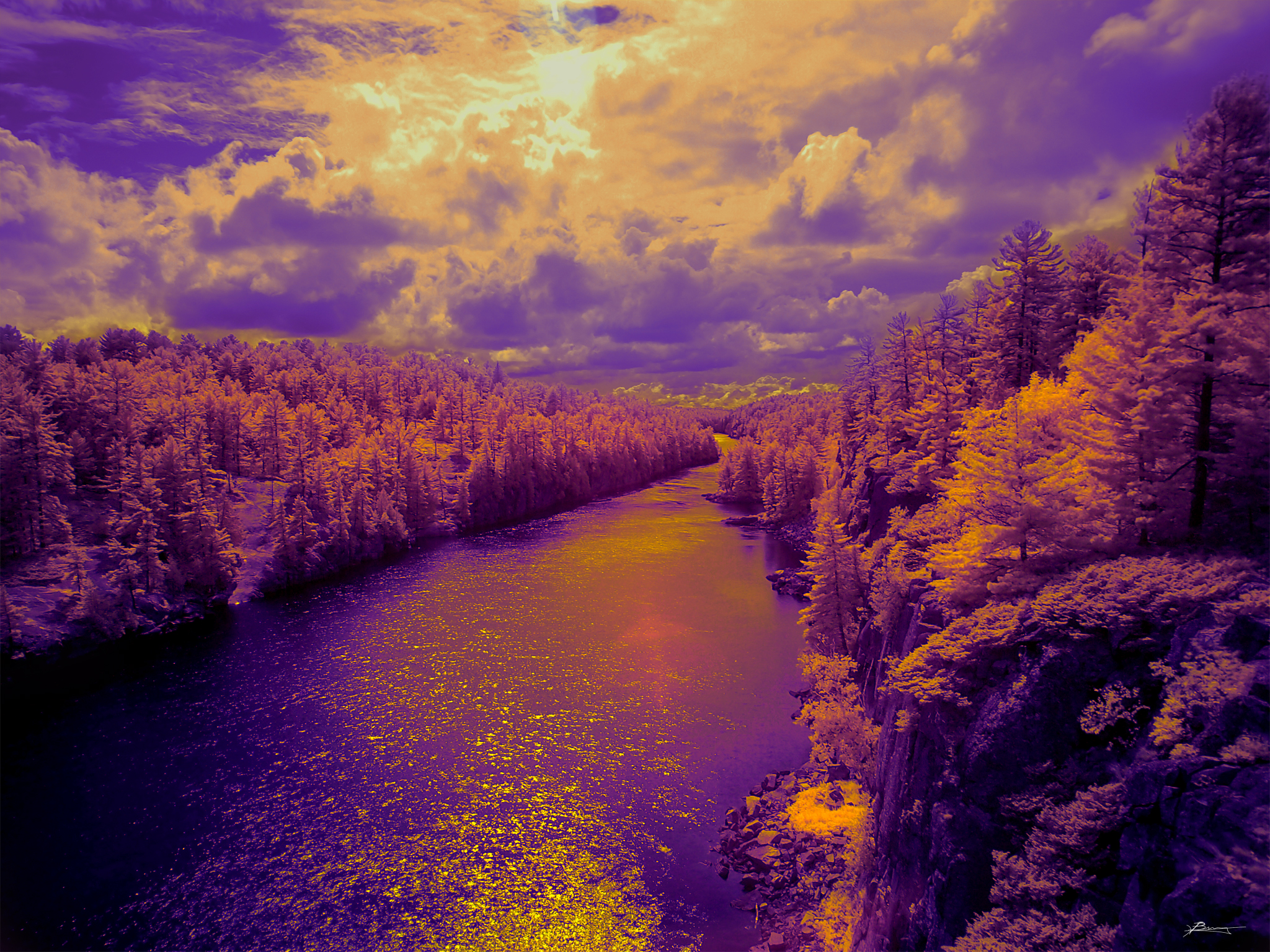 IR of french river; compulsion - wall-e's lament